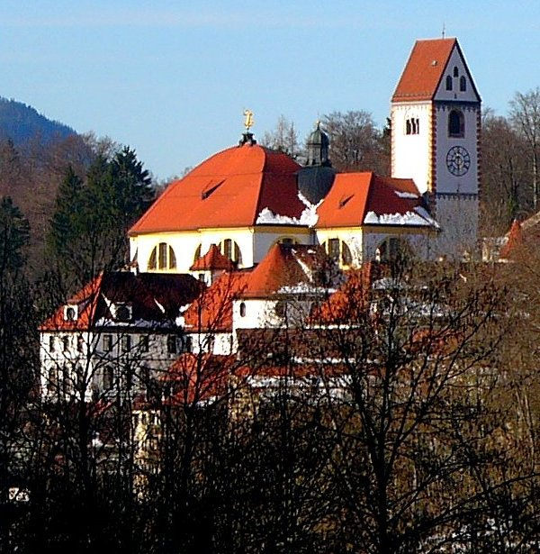 This is a photograph of an architectural monument.